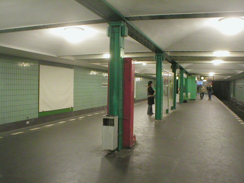 Berlin's undergroudn station Gneisenaustraße, line u7, Berlin, Germany